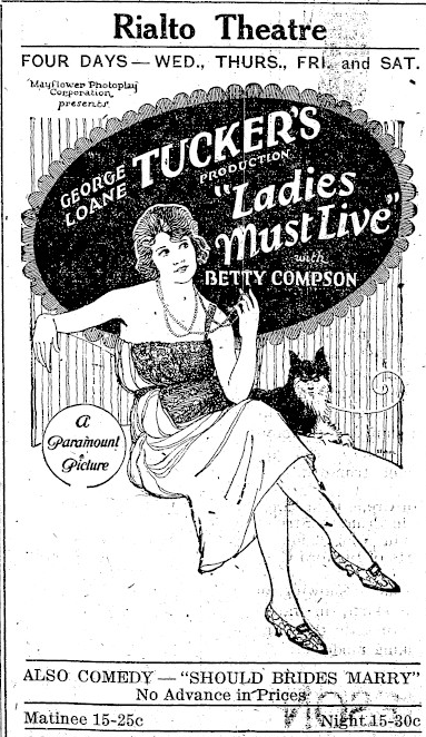 Promotional newspaper advertisement for the American film Ladies Must Live (1921).